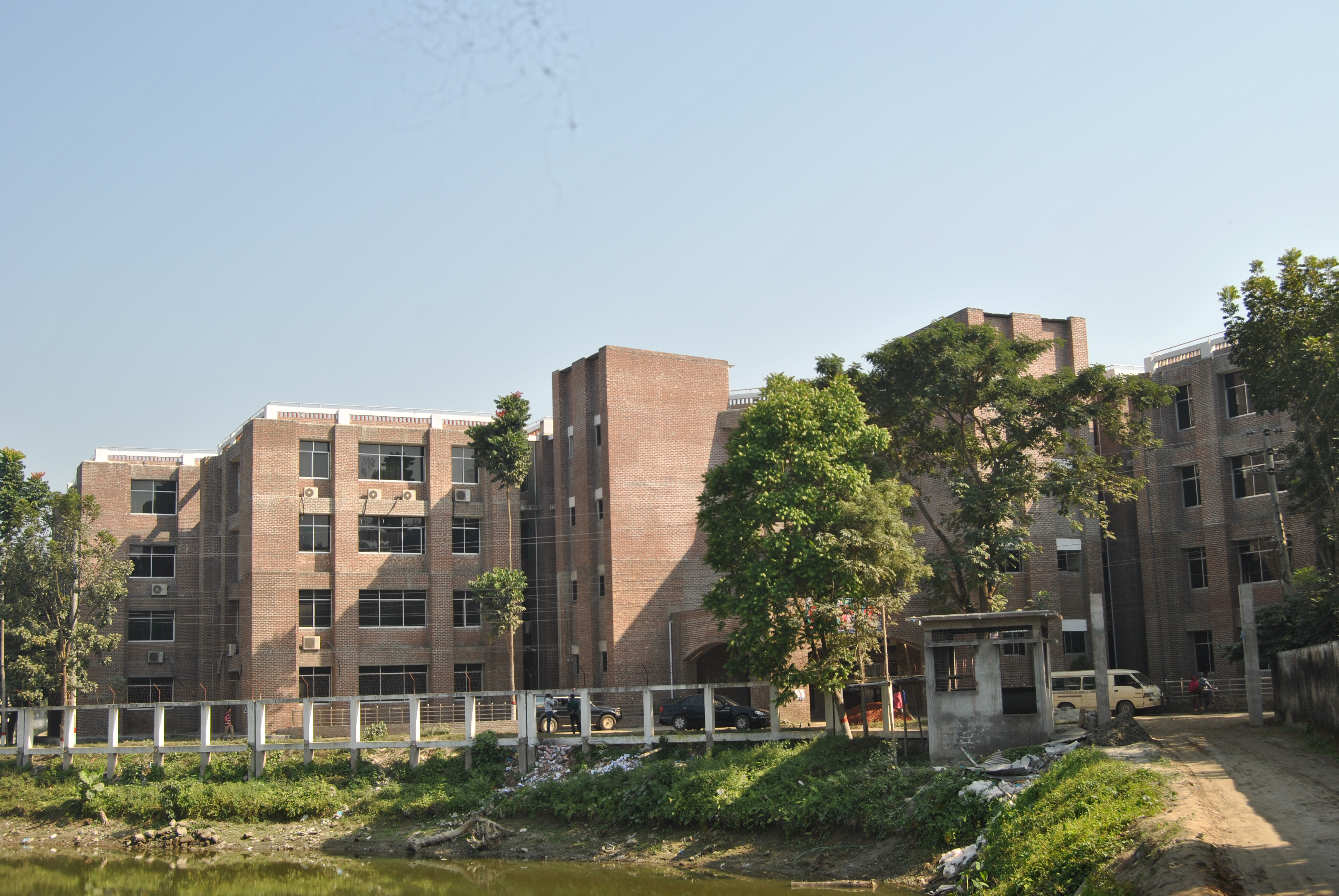 1st academic building at Mawlana Bhashani Science and Technology University